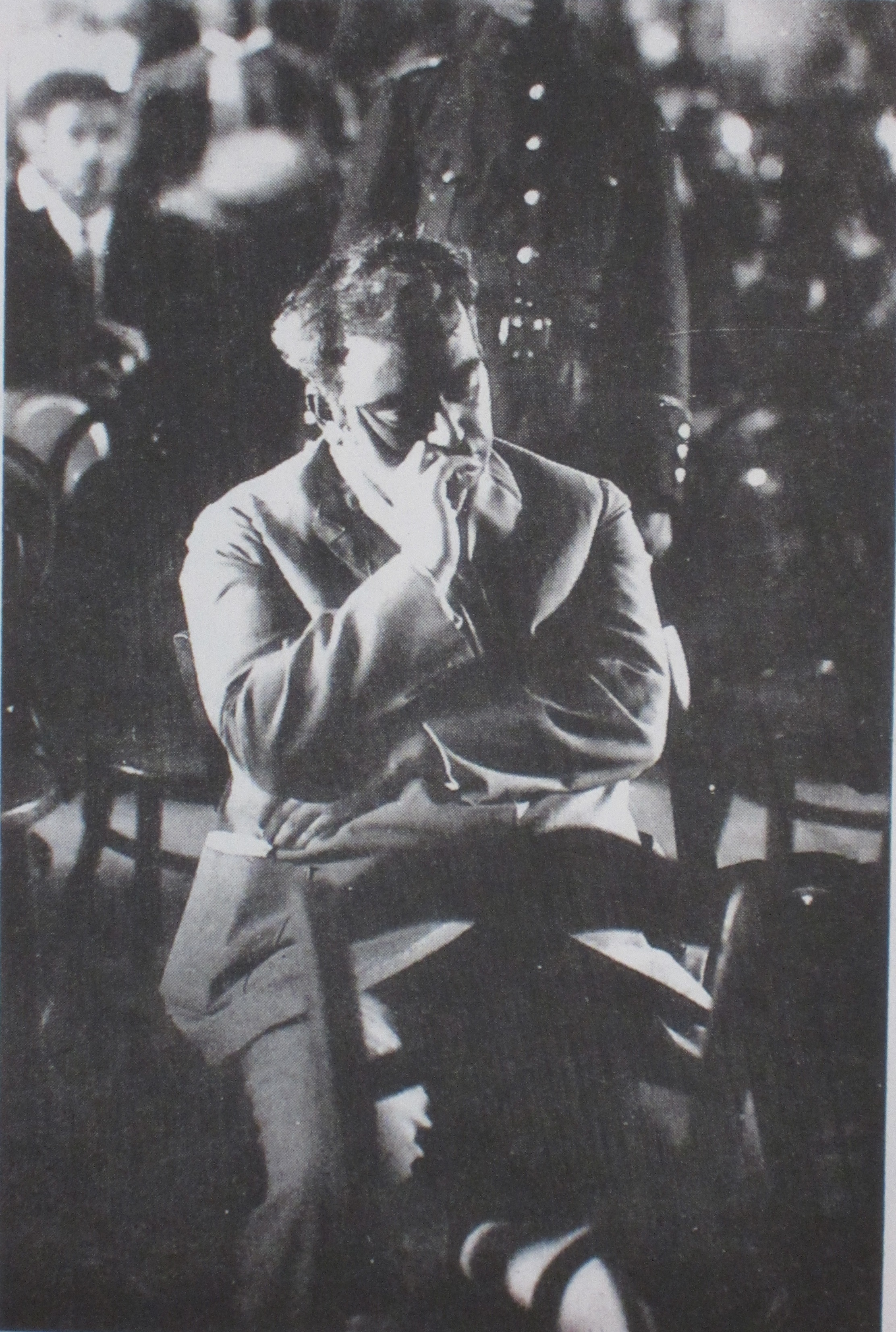 Abidin Bey at the trial